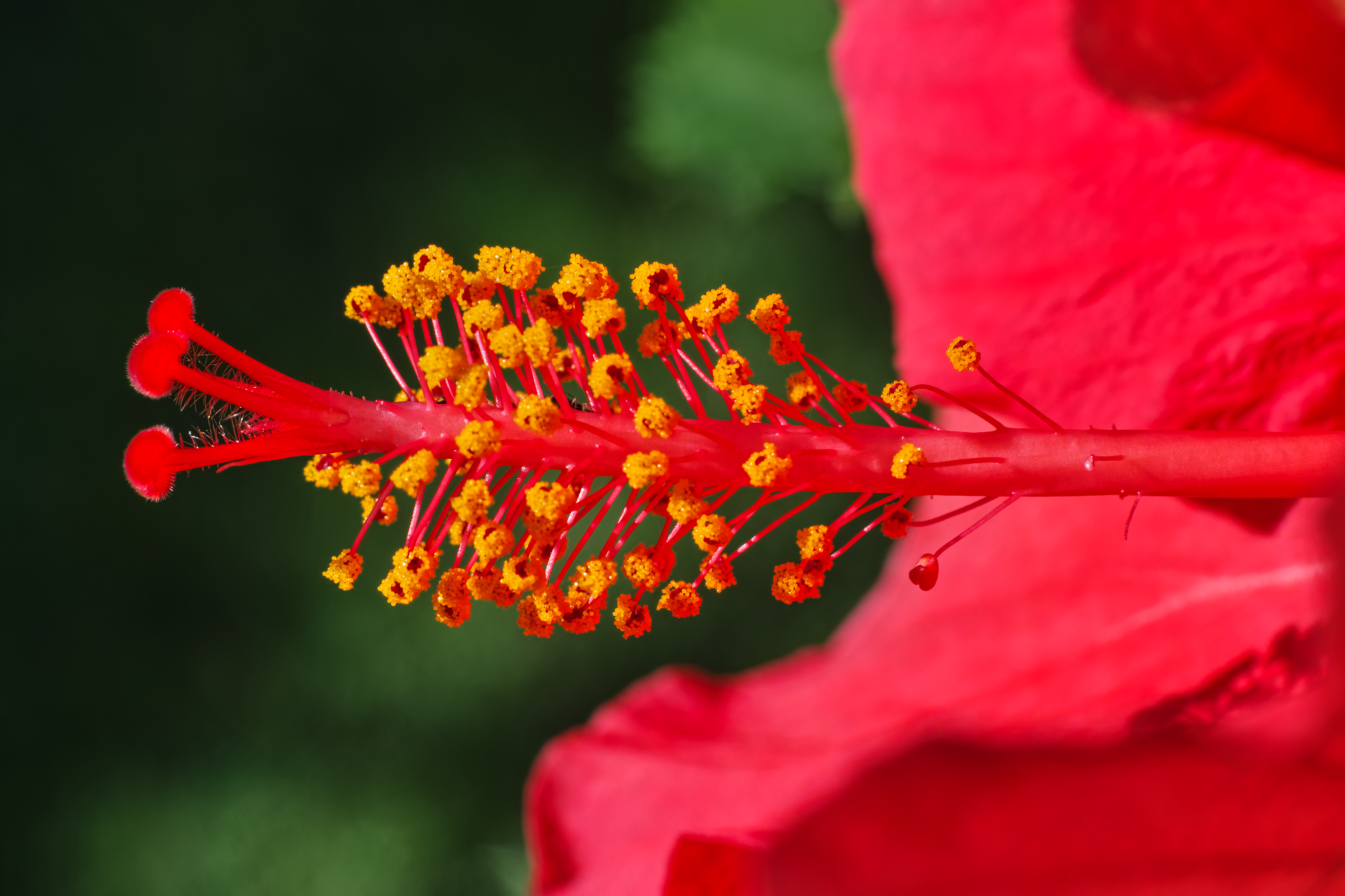 The stigmas and stamens of a Hibiscus rosa-sinensis in a private garden in Austria on September 20, 2014.